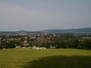 Author: Gabriele Endress (myself), source: My camera. I was on vacation in Germany in 2001. I have family in Isny and I took a photo of the town from the surrounding countryside.